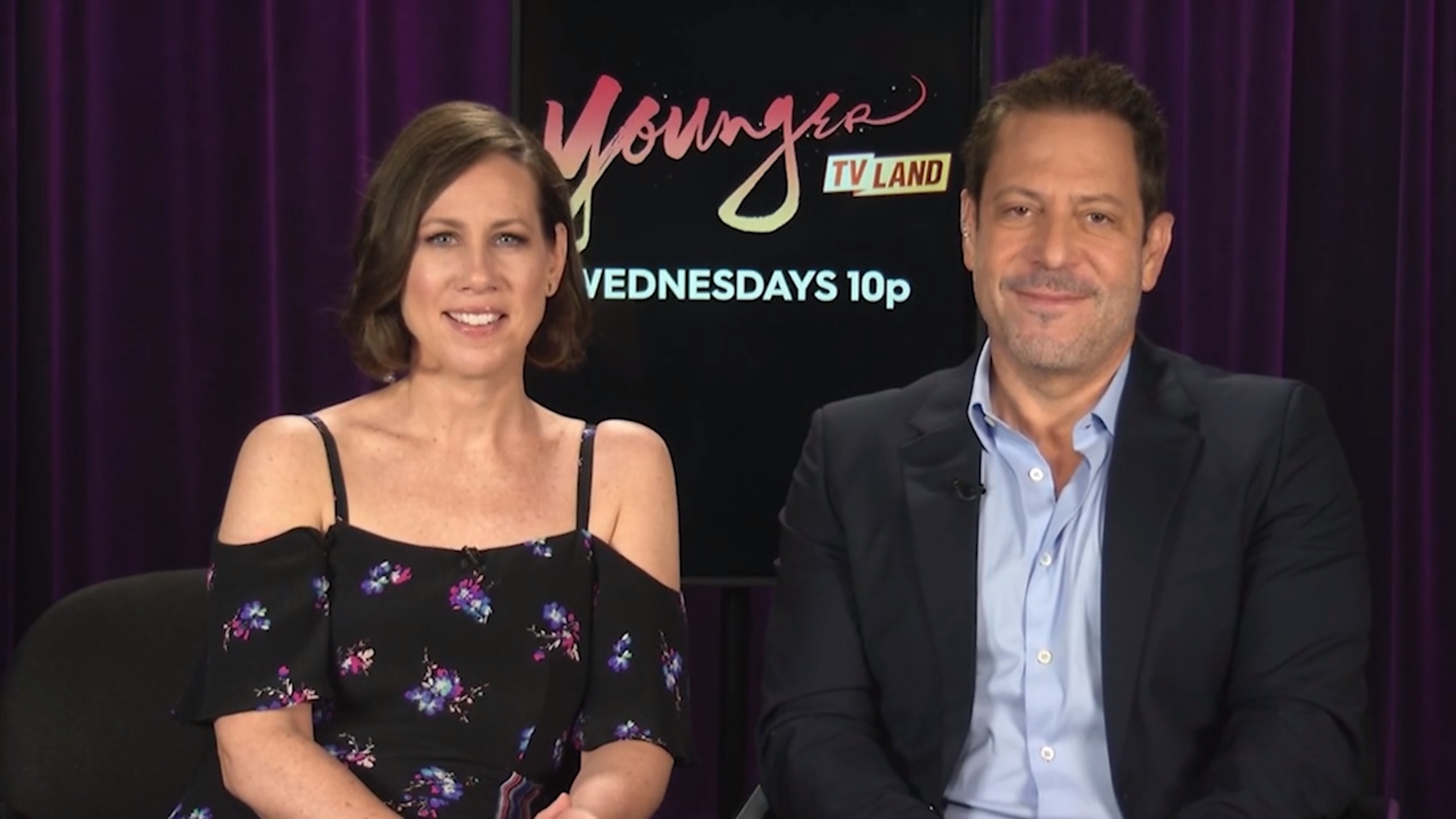 In the extended interview, SIDEWALKS host Lori Rosales talks to "Younger" star Miriam Shor and creator Darren Star about Star's inspiration of his TV shows; why Star thought of Shor for the role of Diana Trout; and did Star, at the beginning, know who Carrie would pick in the "Sex in the City" finale.